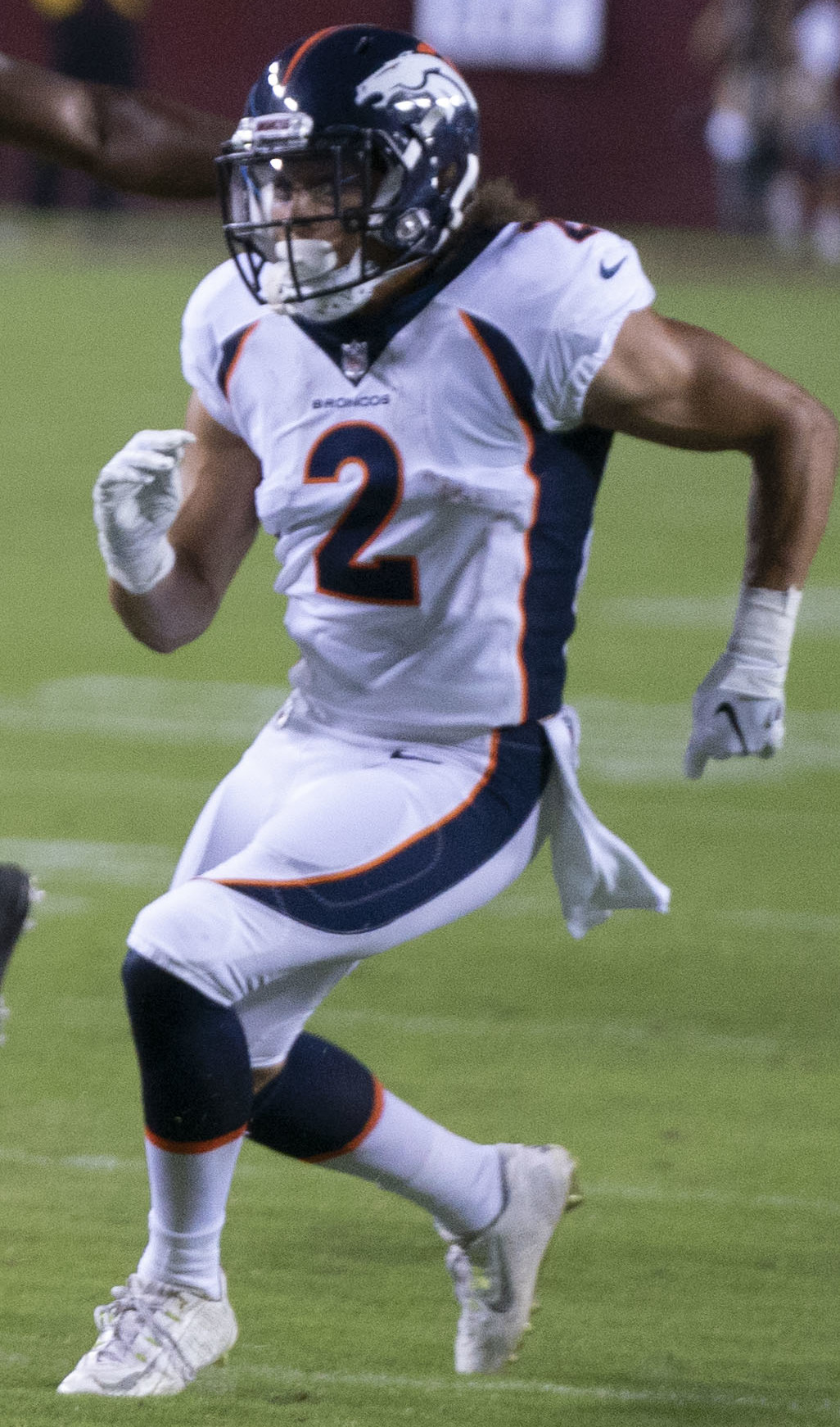 Broncos at Redskins 8/24/18